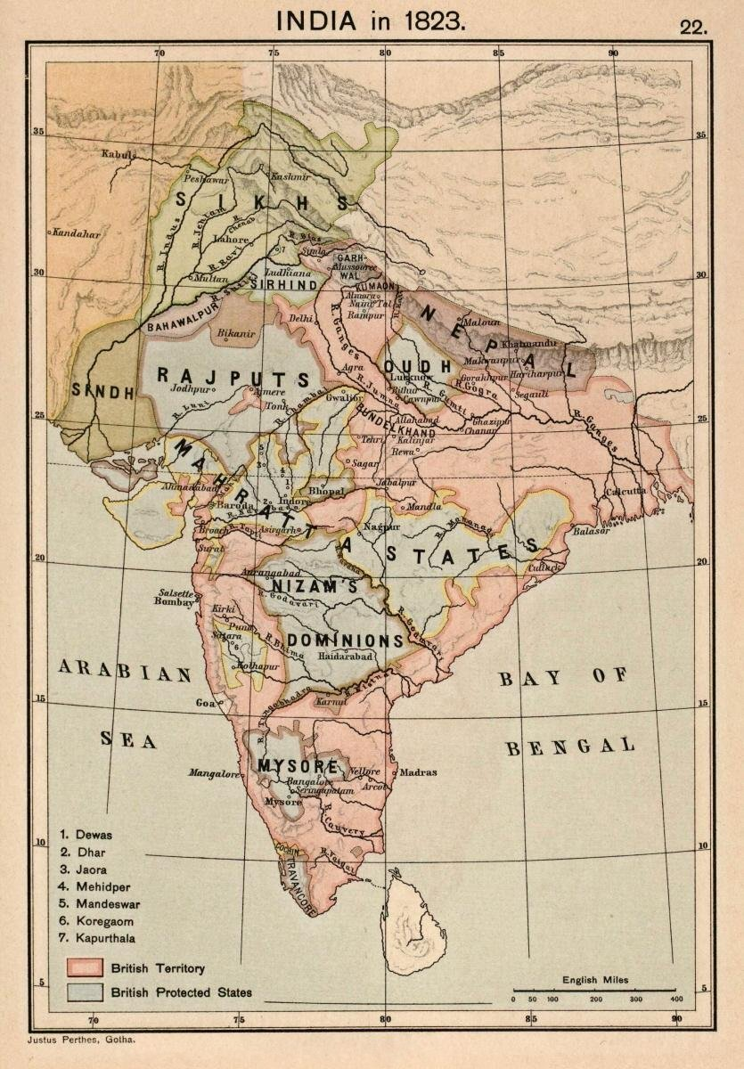 Map of India 1823 from: Joppen, Charles [SJ.] (1907), A Historical Atlas of India for the use of High-Schools, Colleges, and Private Students, London, New York, Bombay, and Calcutta: Longman Green and Co. Pp. 16, 26 maps.